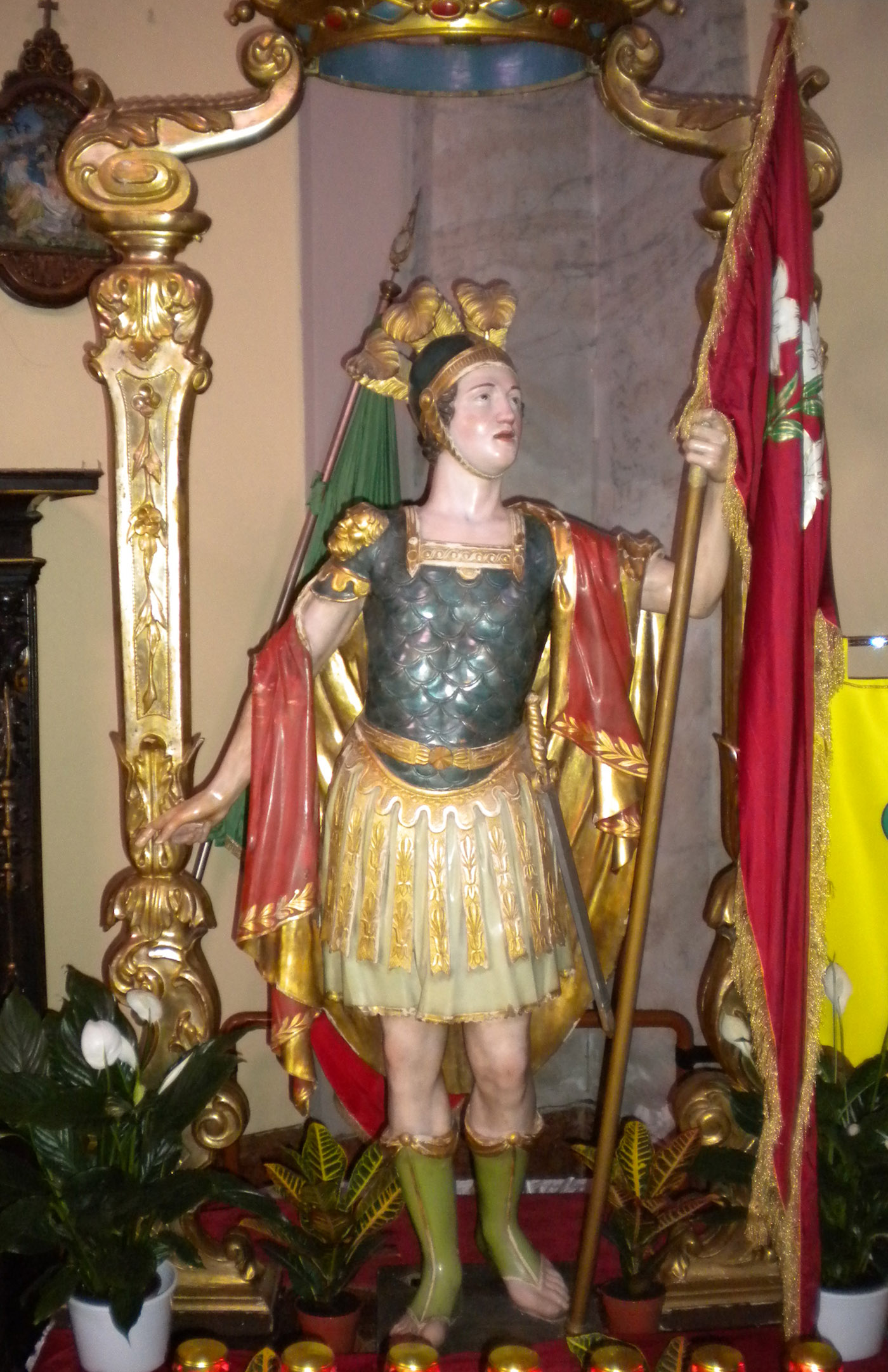 The statue of St. Alexander of Bergamo that is in the church of Cervignano d'Adda, (LO), Italy.